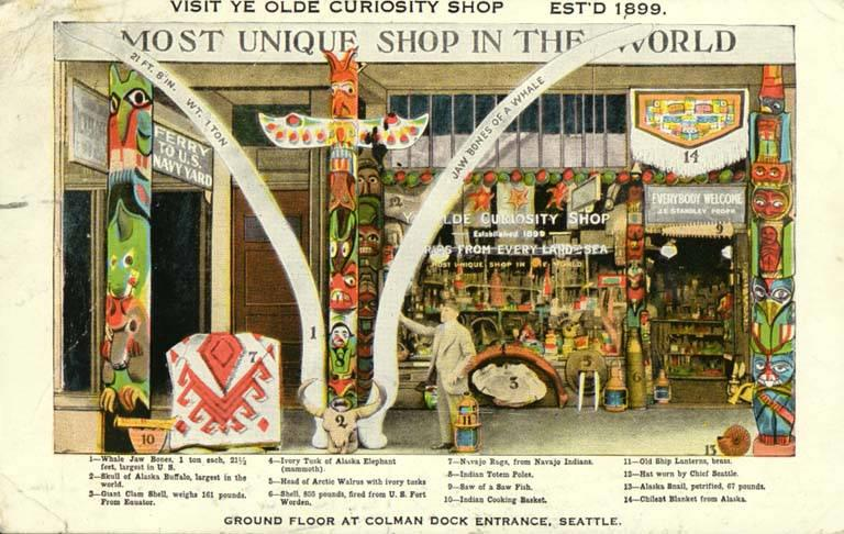 1922 postcard of Ye Olde Curiosity Shop, Seattle, Washington, USA. The shop was then located on Colman Dock.